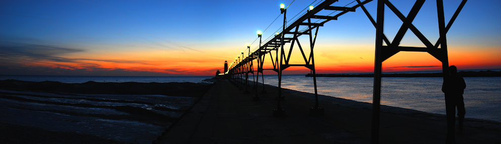 Grand Haven Lighthouses, Grand Haven, Michigan, USA